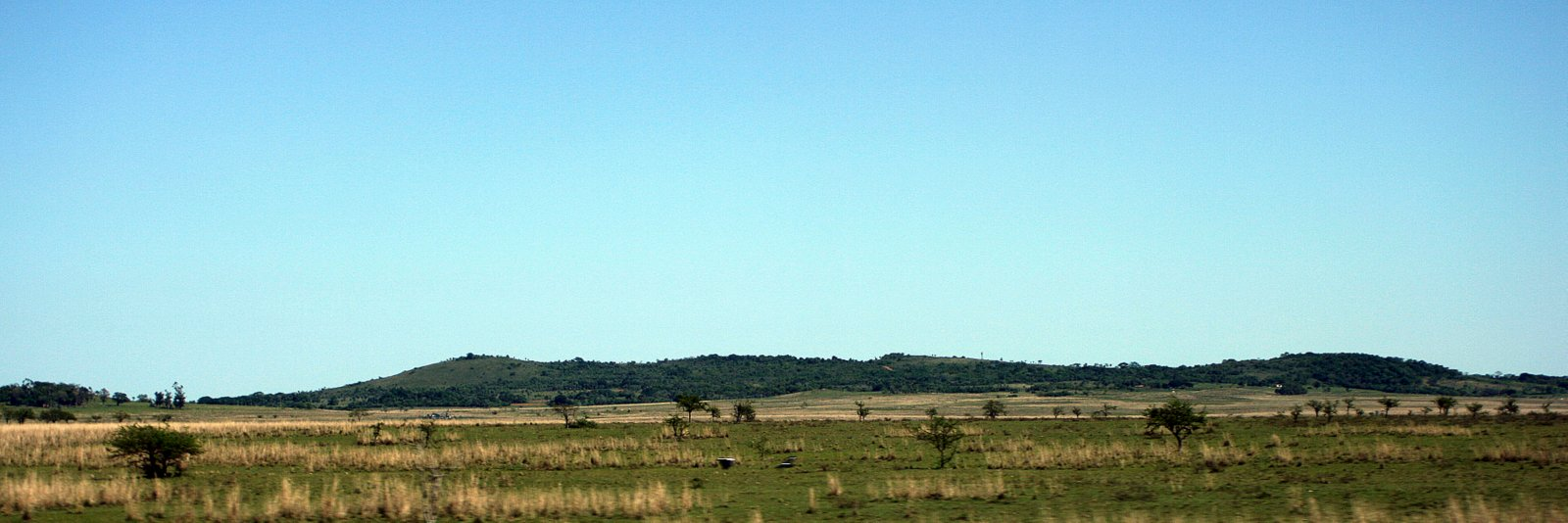 Cerro Perõ hill near San Juan Bautista, Misiones Department, Paraguay.